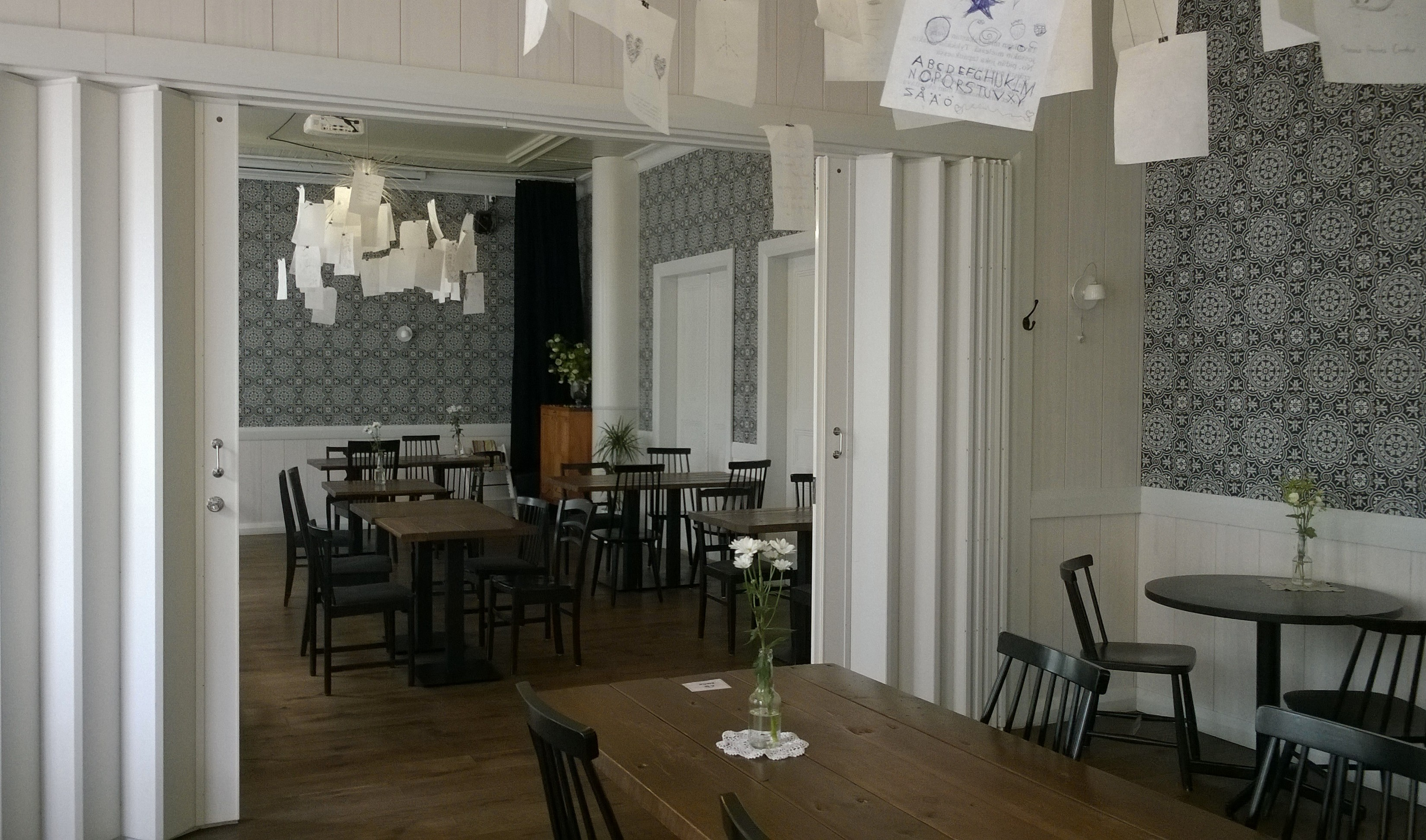 Interior of the Cafe Rooster restaurant in the Riekki House in Oulu.